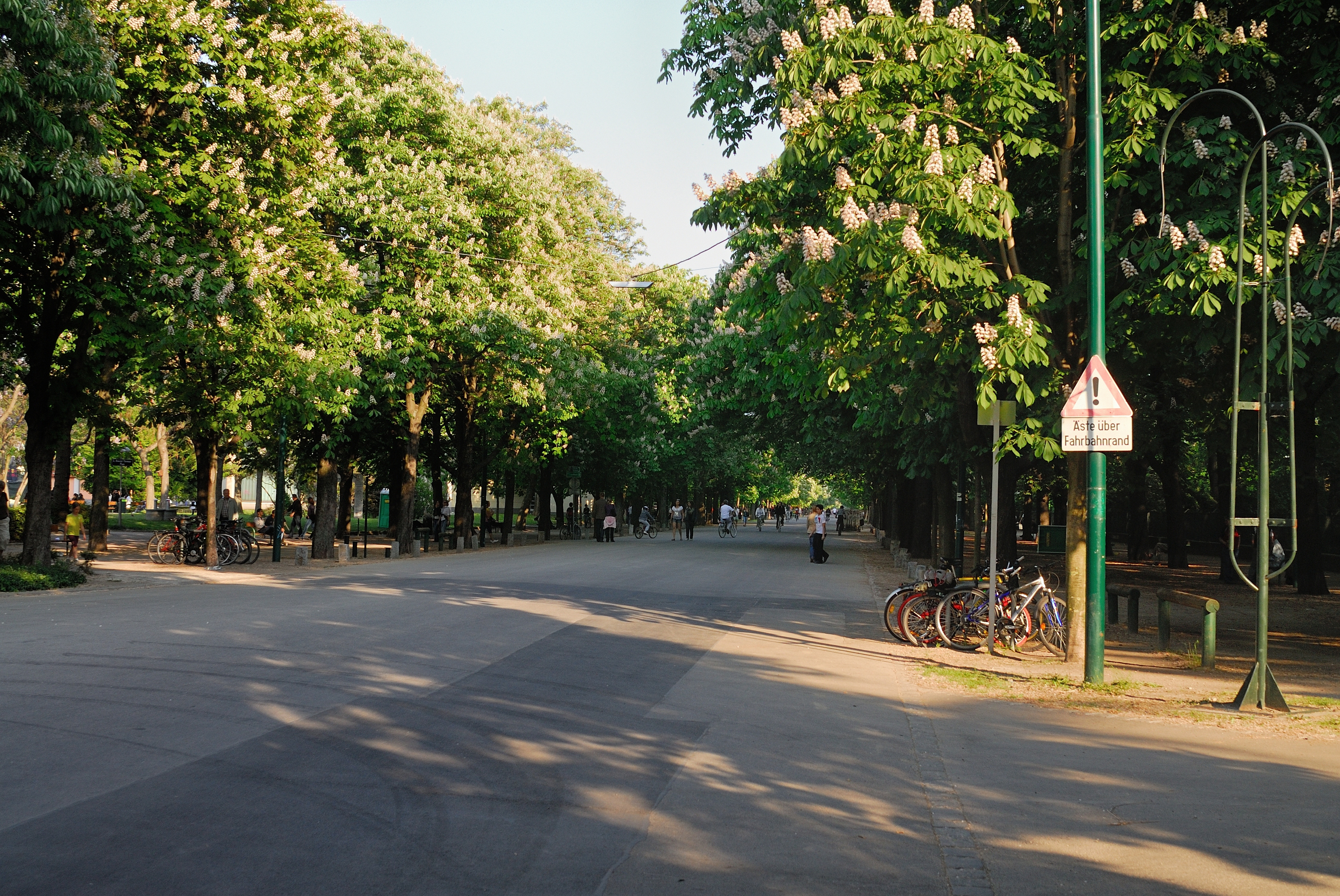 Prater-Hauptallee, 2nd district of Vienna